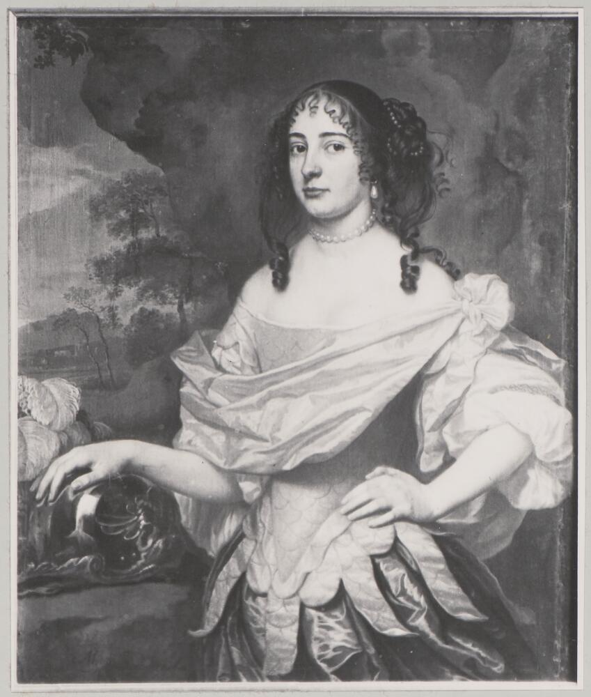 Charlotte, Landgravine of Hesse-Kassel (1627-1686)